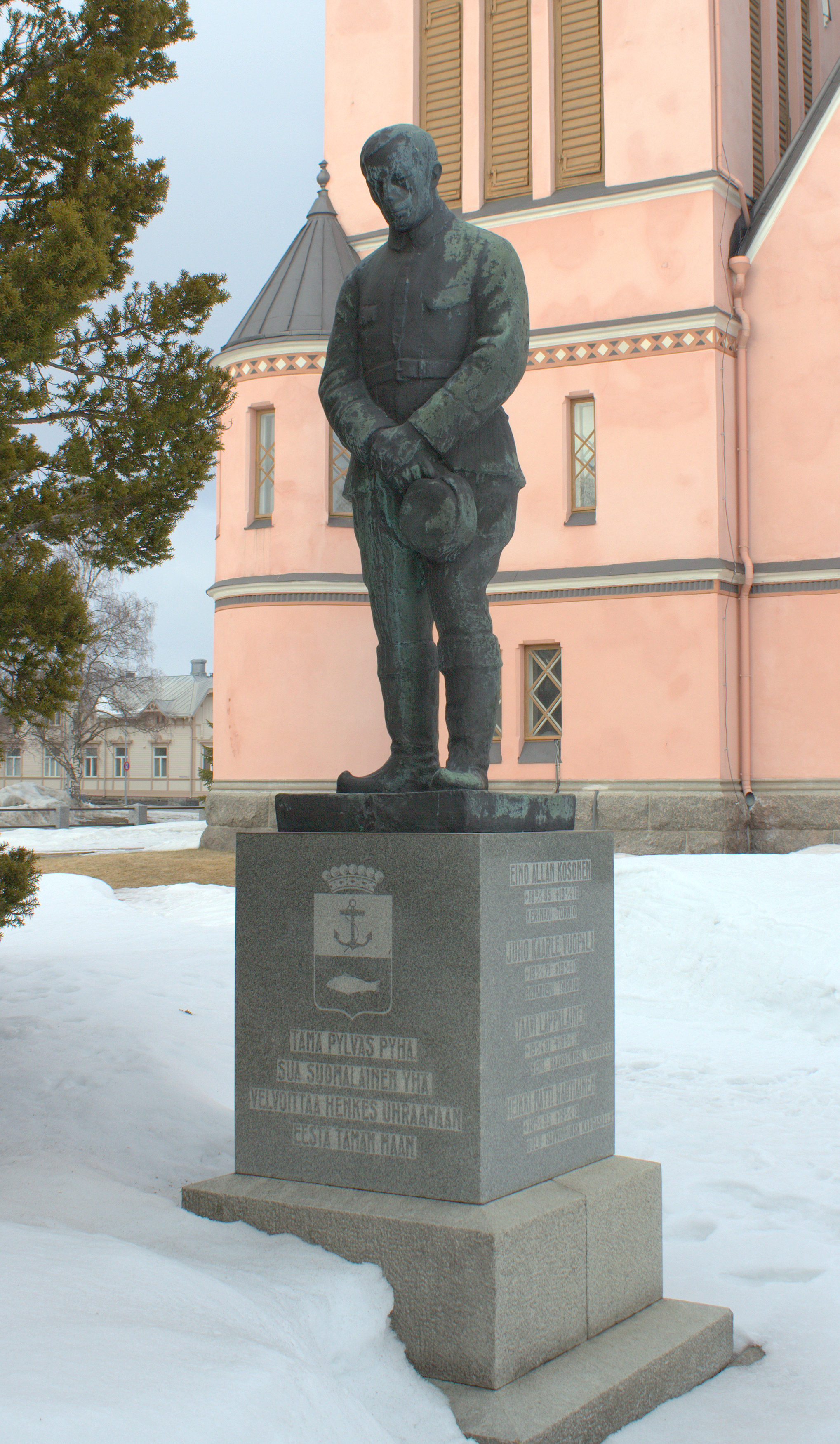 The monument Of the civil war of Finland, "Praying Soldier", by Evert Porila, 1921. The bronze statue stands by the Kemi church.